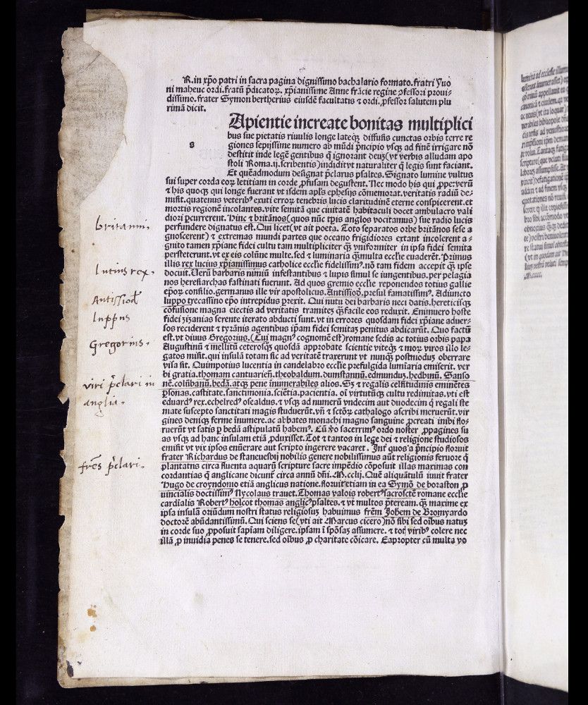 First full page (Folio a i verso) of Opus Trivium by Johannes de Bromyard. Marginal notes, extracting key words and commenting on the text, in a sixteenth-century hand. Copy held in the Bodleian Library, Oxford. Shelf mark: B 19 4 Linc. Digitised by the Polonsky Foundation Digitisation Project. Provenance information at